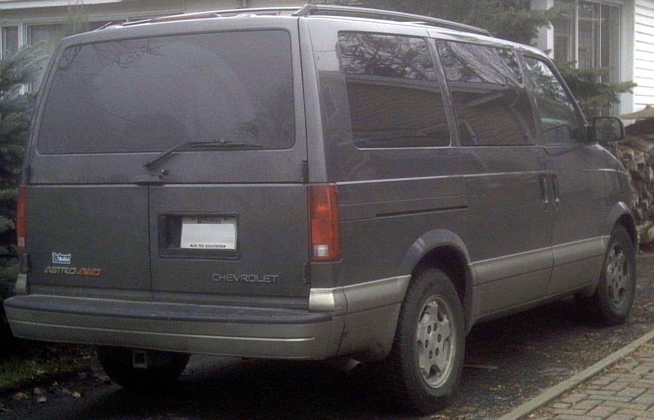 1995-2005 Chevrolet Astro photographed in Montreal, Quebec, Canada.